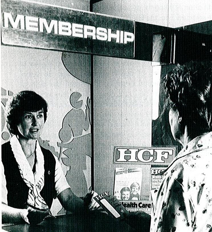 HCF Customer Service Officer is serving a member in early 1980s.